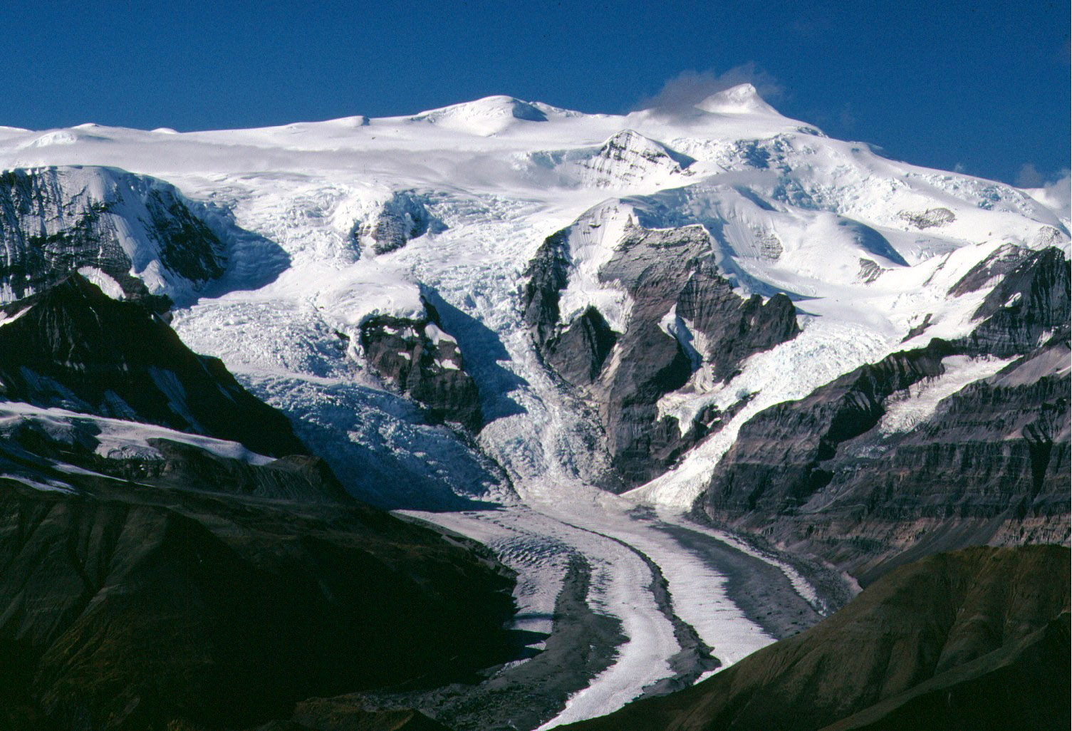 Regal Mountain from the southeast, looking up the Regal Glacier. Wrangell-St. Elias National Park and Preserve, Alaska, USA